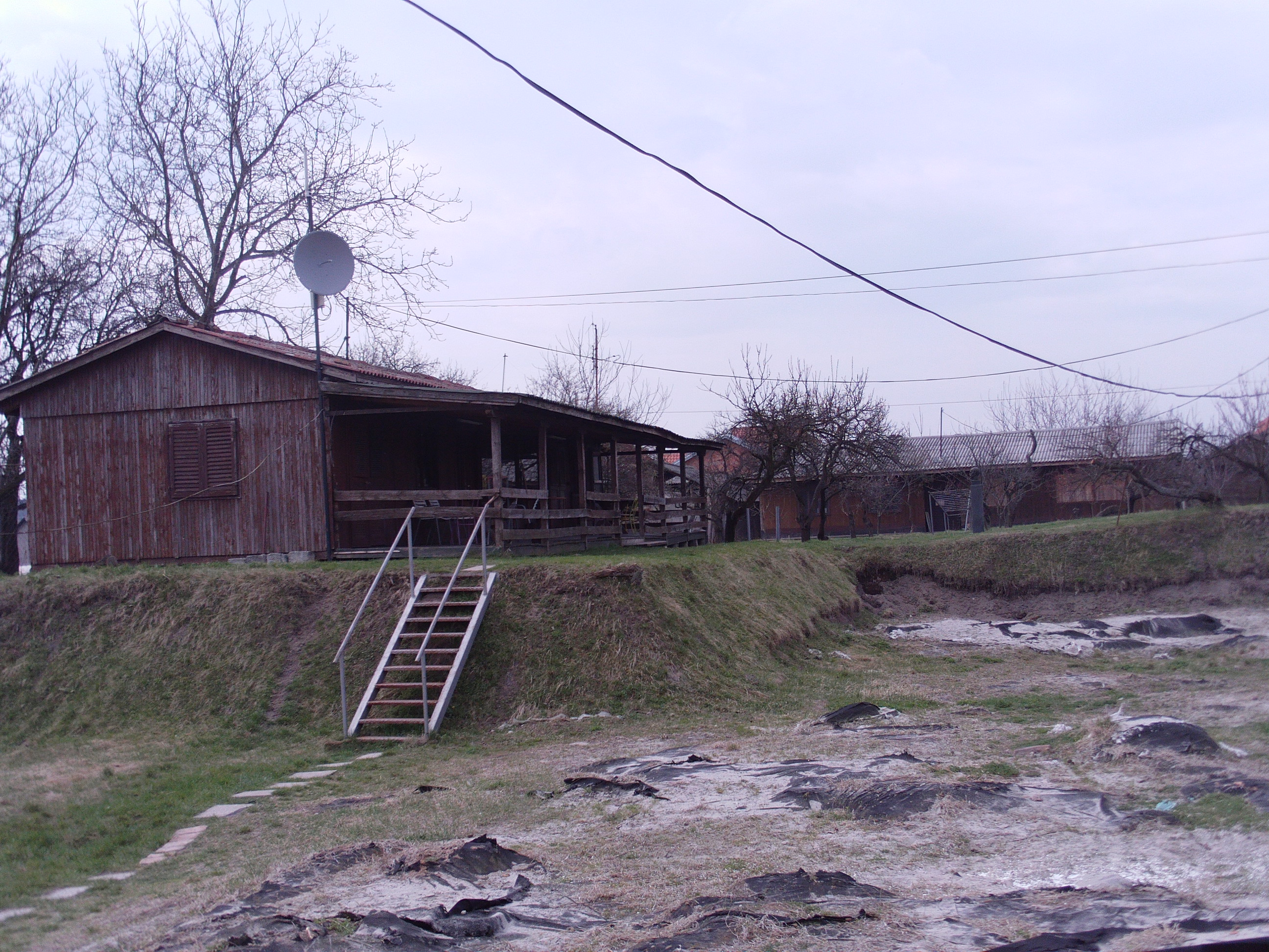 Buried and protected archeological site Vinča-Belo Brdo due to the landslide, 2011